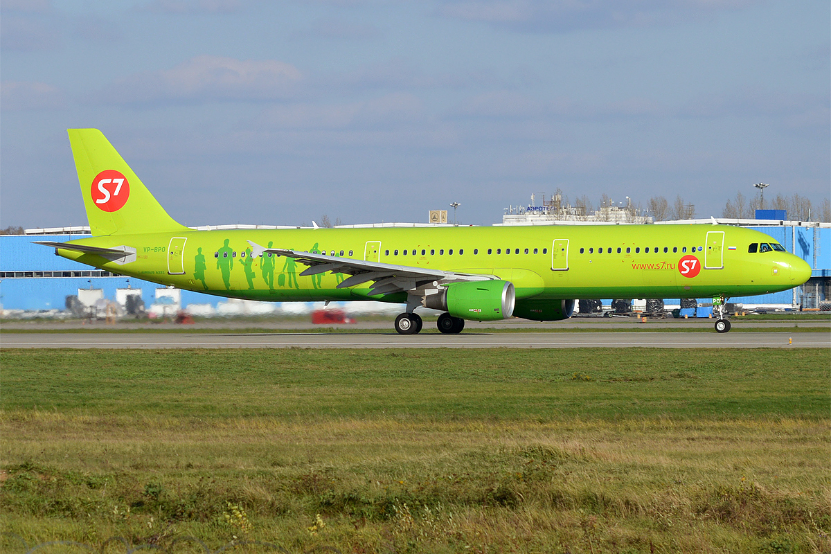 S7 Airlines, VP-BPO, Airbus A321-211